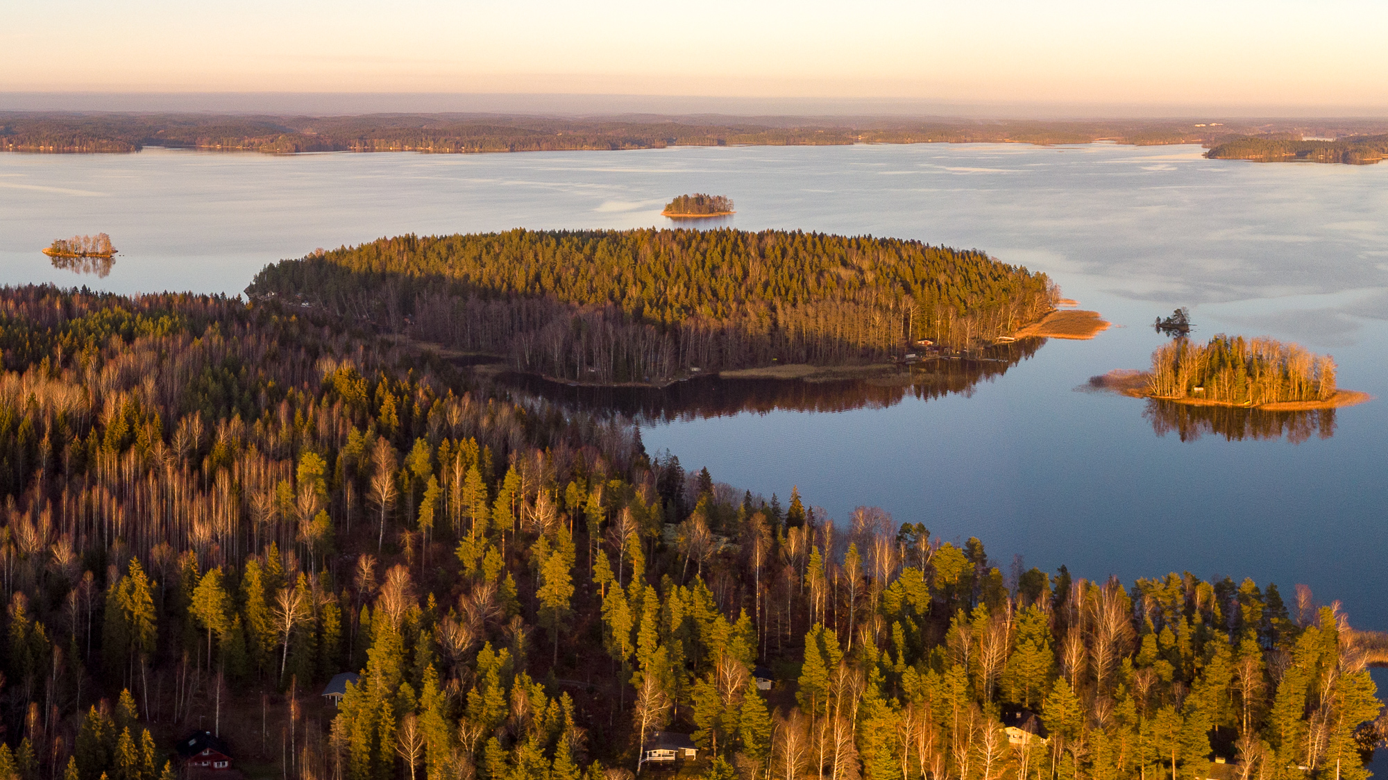 The island of Kuulukainen in Lohjanjärvi, Finland, with the smaller islands of Jyrkönsaari, Virmoo, and Karhusaari visible around it.